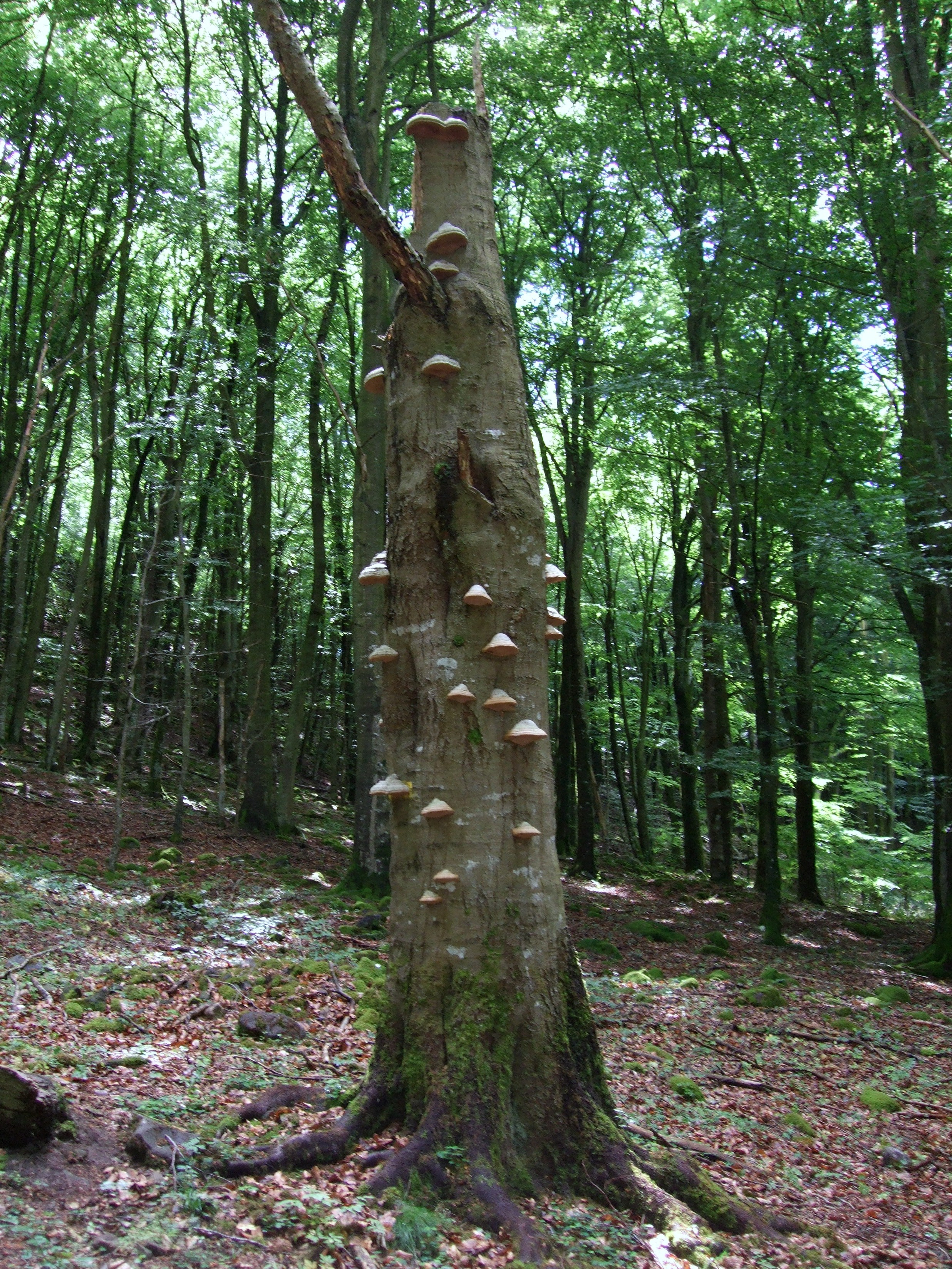 Gälla Bjär nature reserve